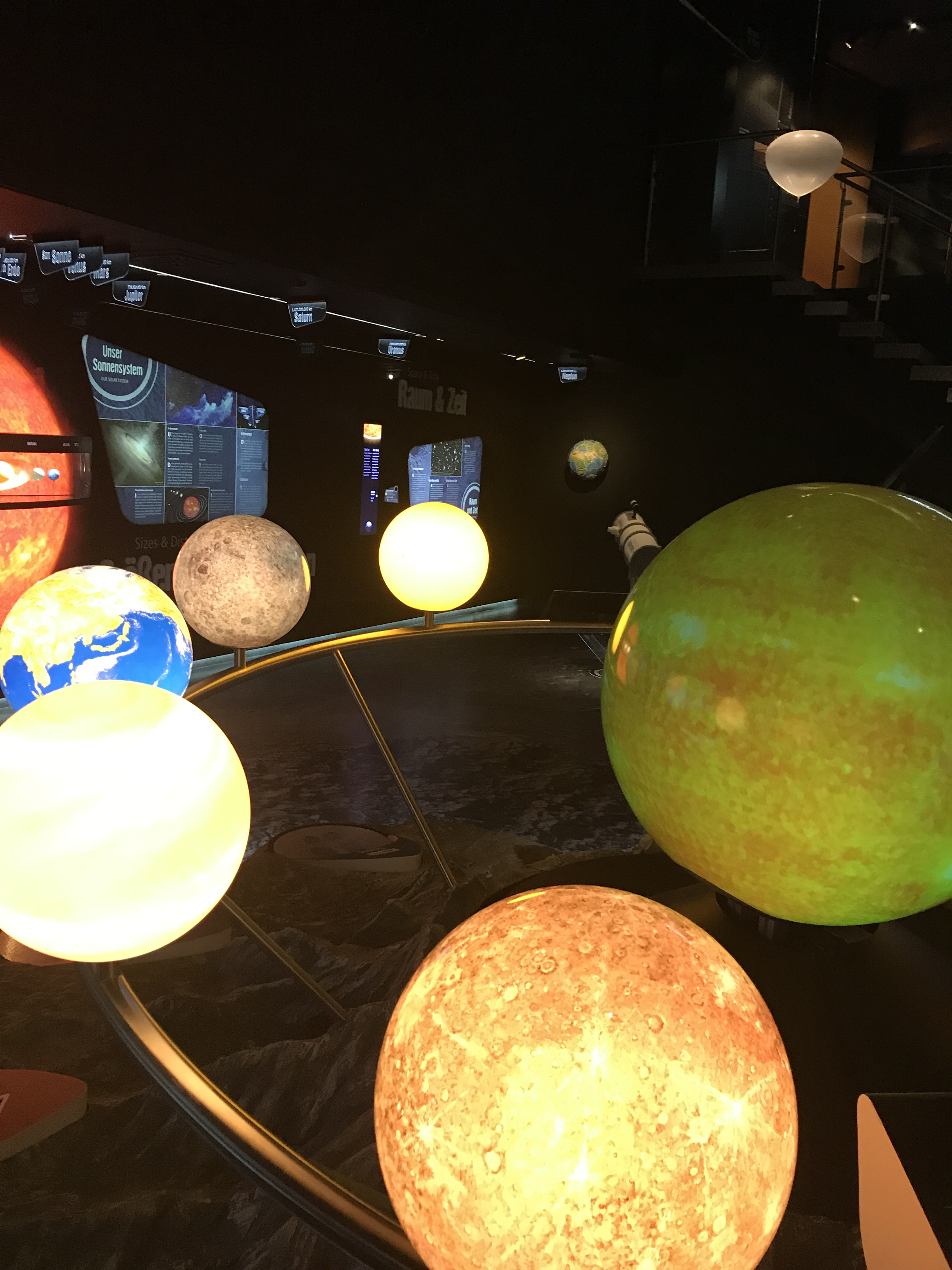 Planets in Haus der Natur in Salzburg, Salzburg District, Austria.